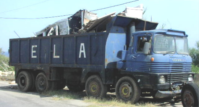 Scammell Routeman 8x4 tipper truck